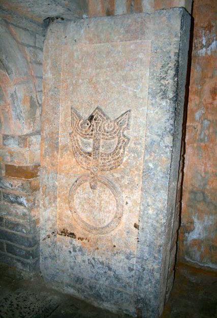 A stone-carved door from a tomb in Luoyang, China, dated to the Eastern Han Dynasty (25–220 AD); the decoration on the door represents a door knocker with a taotie face.